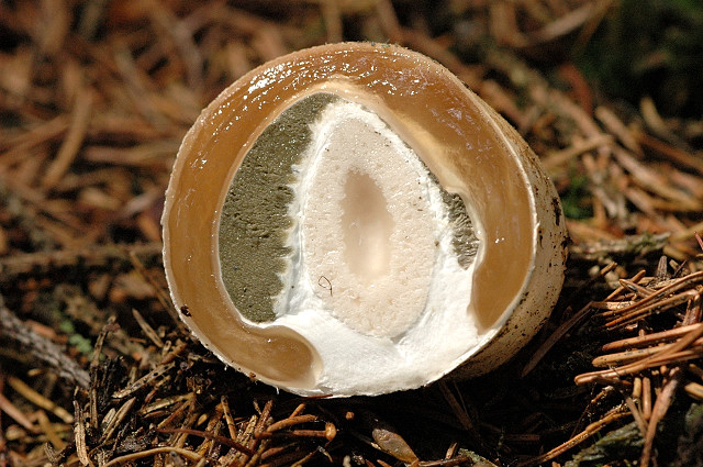 Phallus impudicus from Commanster, Belgium. The determination of the species shown in this picture has been verified.